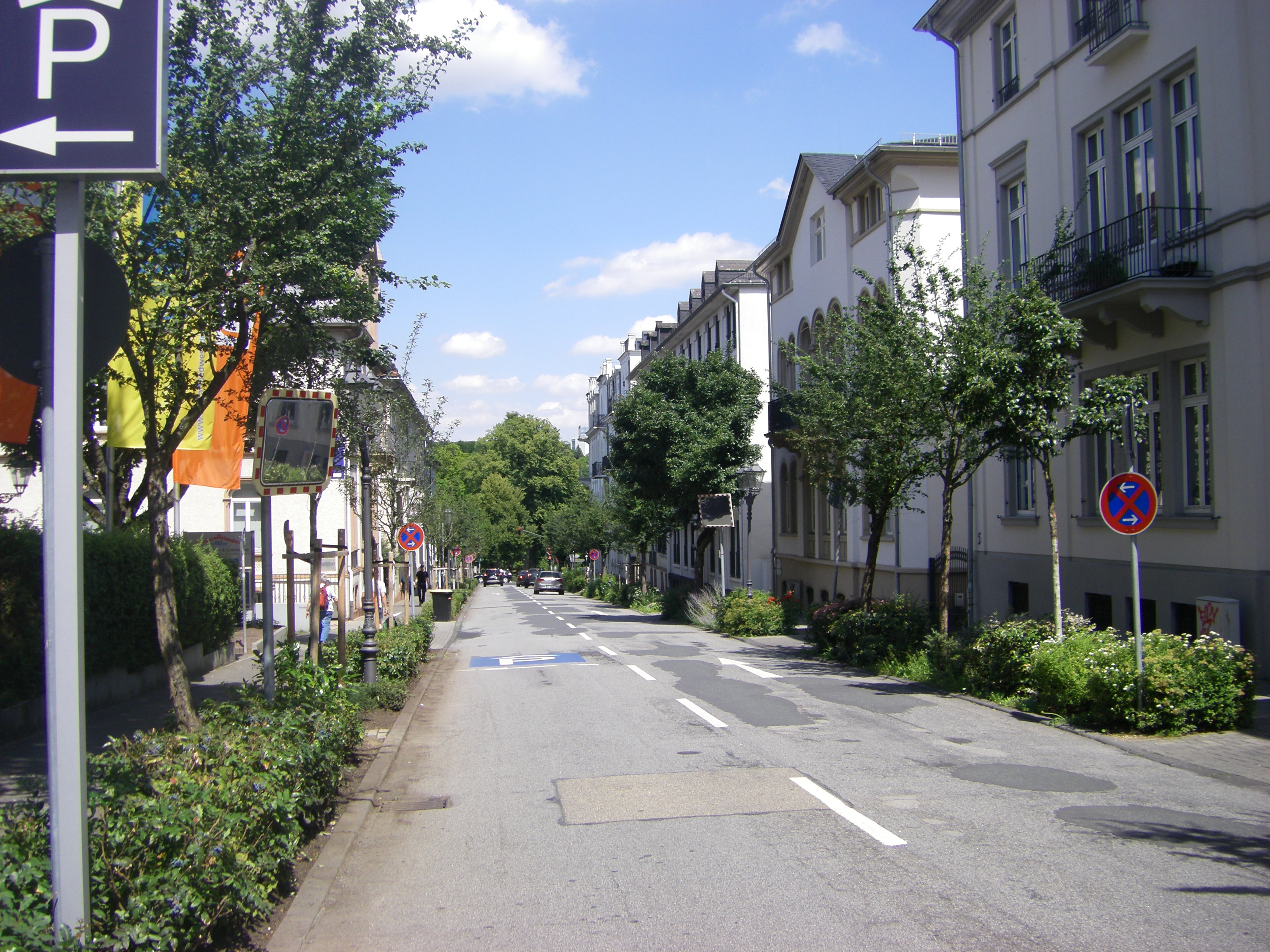 View into Kisseleffstraße, Bad Homburg, from near to the corner of Louisenstraße way down to Kaiser-Friedrich-Promenade